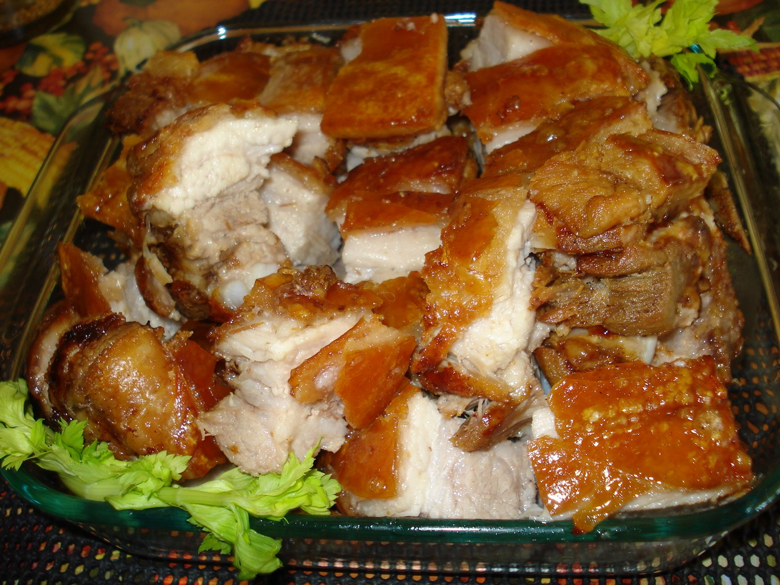 Lechón is a pork dish in several regions of the world, most specifically Spain and its former colonial possessions throughout the world. The word lechón originated from the Spanish term leche (milk); thus lechón refers to a suckling pig that is roasted. Lechón kawali involves boiling the processed meat, and then frying the pieces of pork in a frying pan.